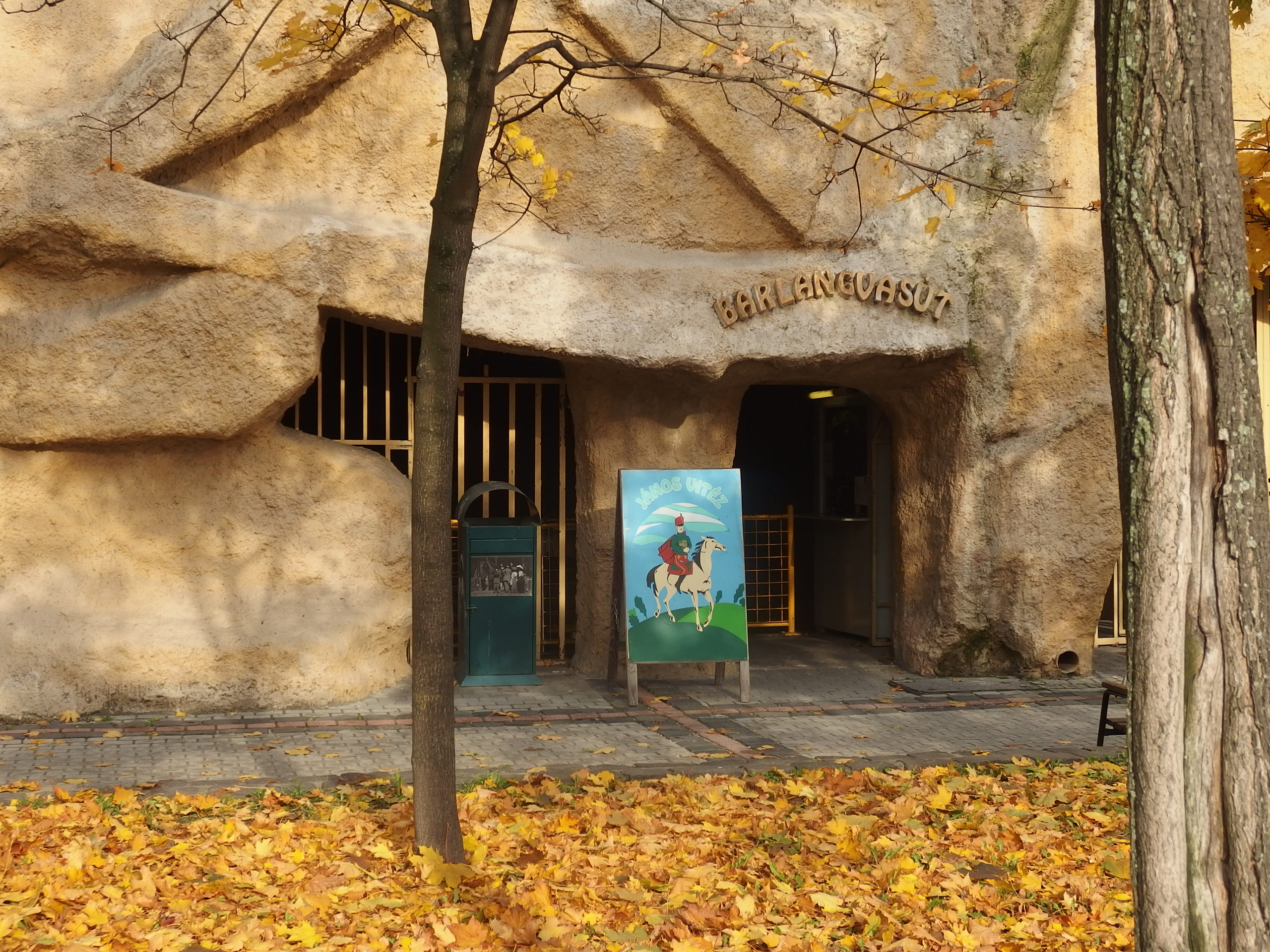 The closed Cave Ride in Budapest Amusement Park